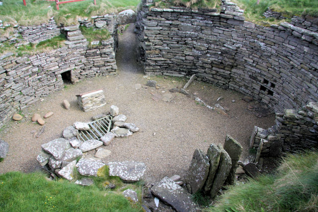 Burroughston Broch, Shapinsay Burroughston Broch was first excavated in 1861, but over the following years it slowly filled with rubble and vegetation. Work began in 1994 to clear out the broch and to consolidate the walls. This work has now been completed and the broch's remarkable internal condition can best be viewed from the grassy bank.